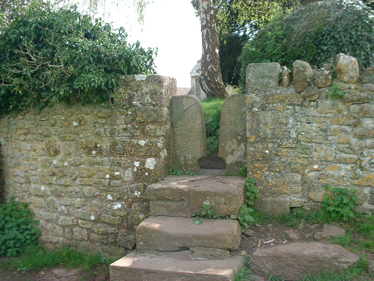 Stile 15 metres north west of tower at St Lawrence church East Harptree.